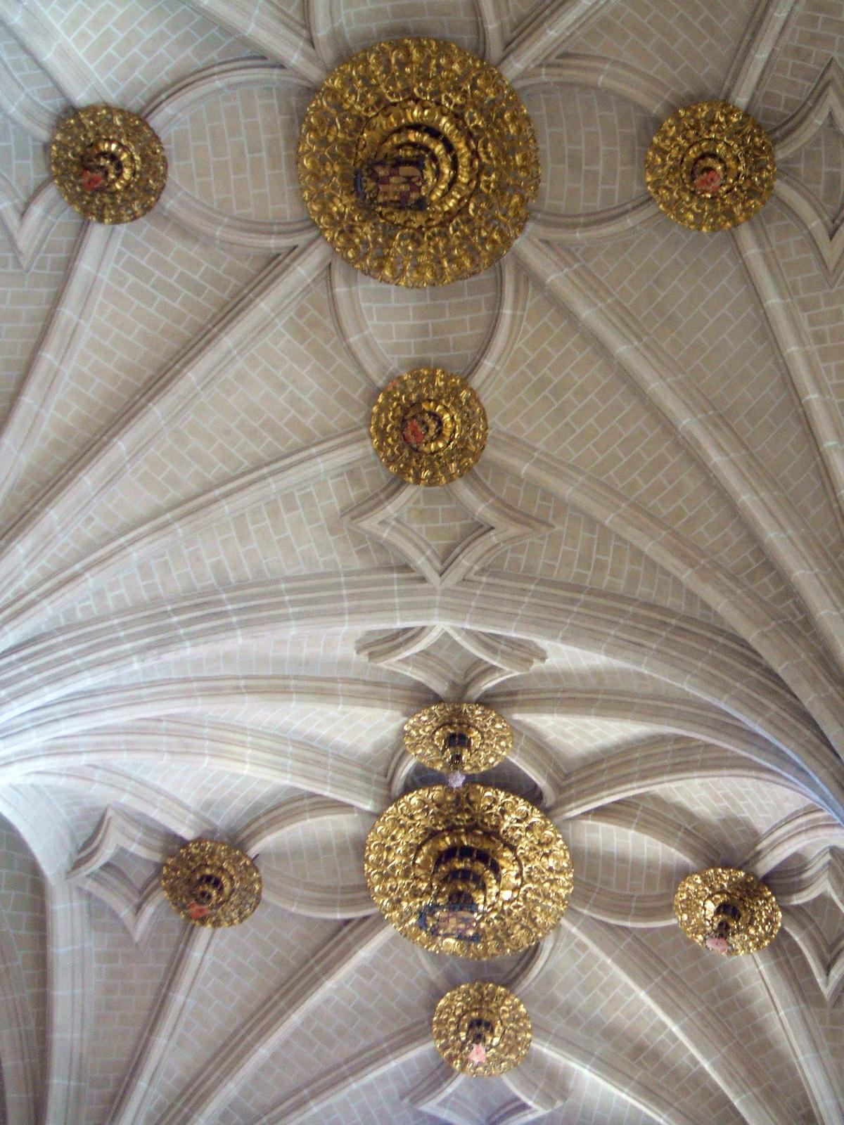 Bóvedas y claves de la Catedral del Salvador (La Seo) de Zaragoza (Aragón, España).